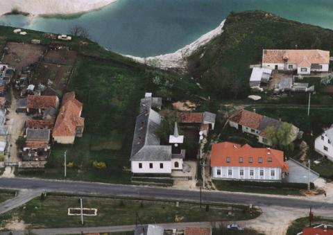 Monostorapáti, Hungary, aerialphotography